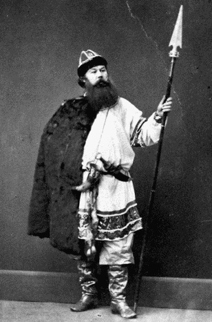 Platon Radonezhskiĭ - Vladimir Krasnoe solnyshko